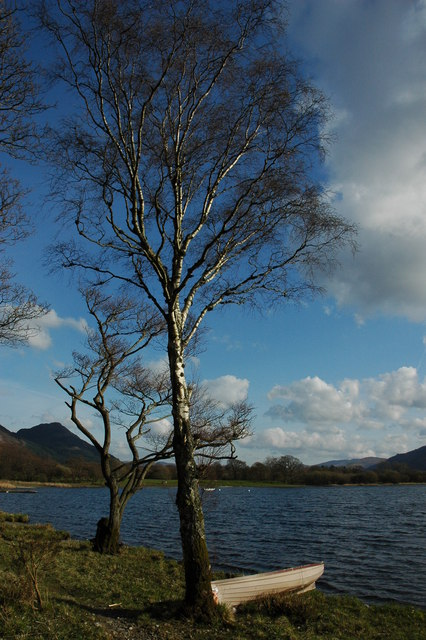 Silver birch on the shore of Bassenthwaite Silver birch on the shore of Scarness Bay, Bassenthwaite Lake. Dodd can be seen on the left in the background.